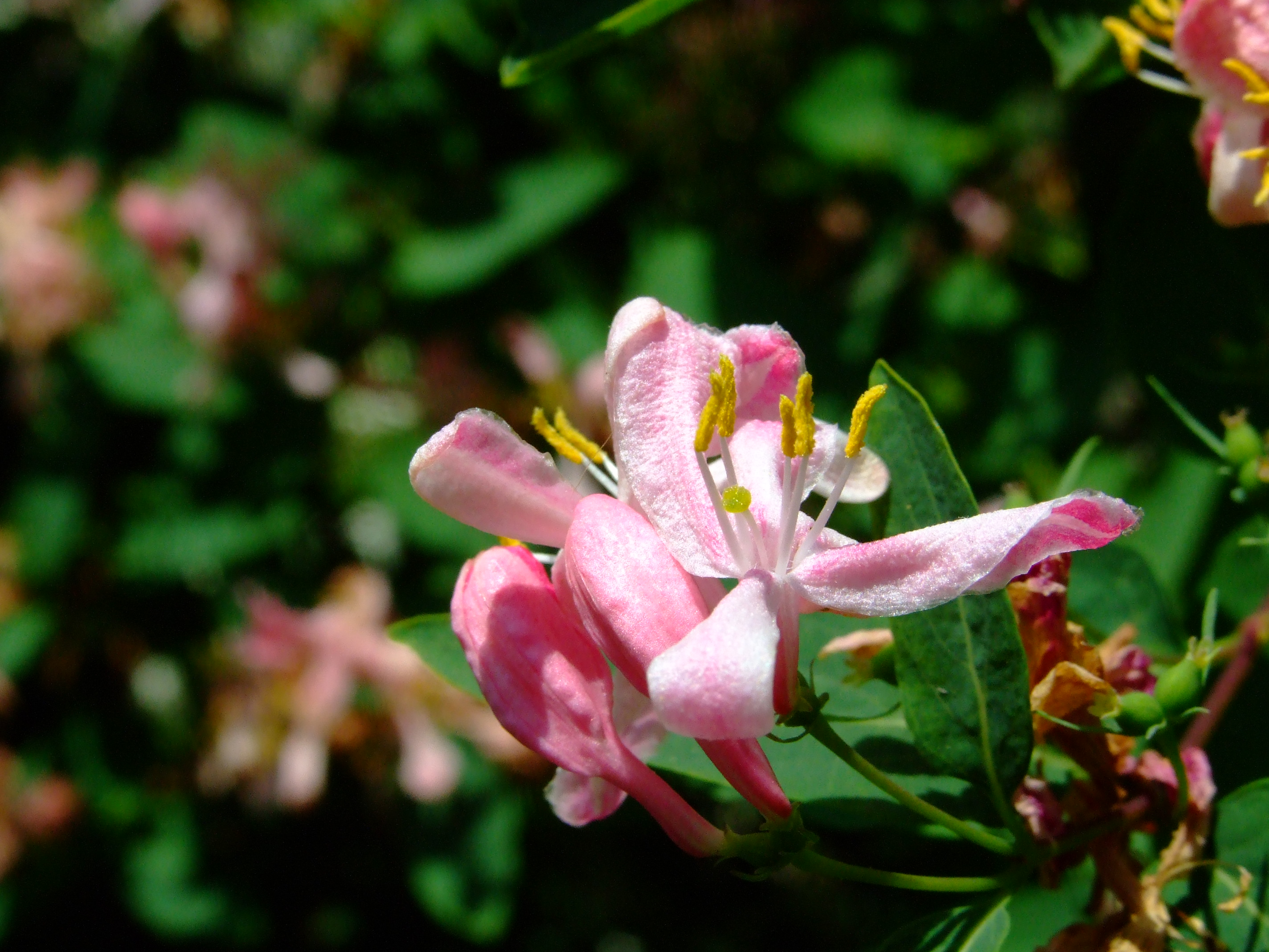 Tree blossom in Prague-Folimanka parkhelp